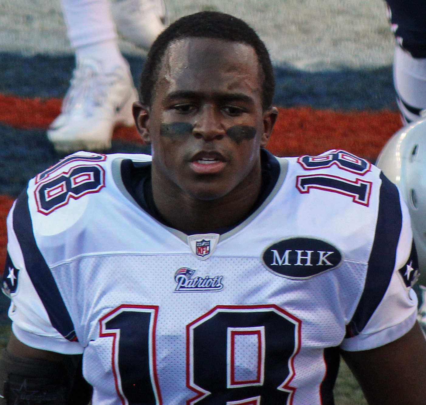 Matthew Slater, a player on the National Football League.